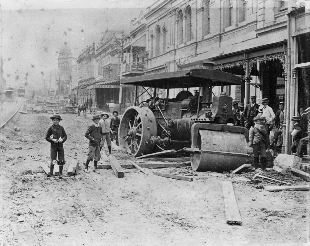 Creator: Unidentified Location: Brisbane, Queensland Description: Wood paving was laid in Queen Street in 1897-1898 on the block between Creek Street and Eagle Streets. Workers and spectators are attempting to free the steam roller which has bogged in the mud. The single cylinder, Aveling and Porter steam roller was built in Rochester, England. The street has been excavated to allow for the laying of the wooden blocks. Behind the steam roller, part of the sign of the South British Insurance Company is visible and in the distance, part of the domed building that housed the Mutual Life Association of Australia. View this image at the State Library of Queensland: Information about State Library of Queensland’s collection